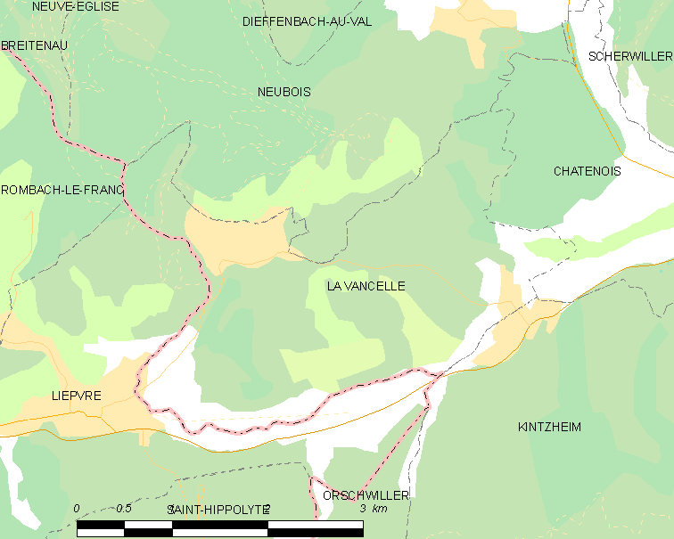 Map of French municipality